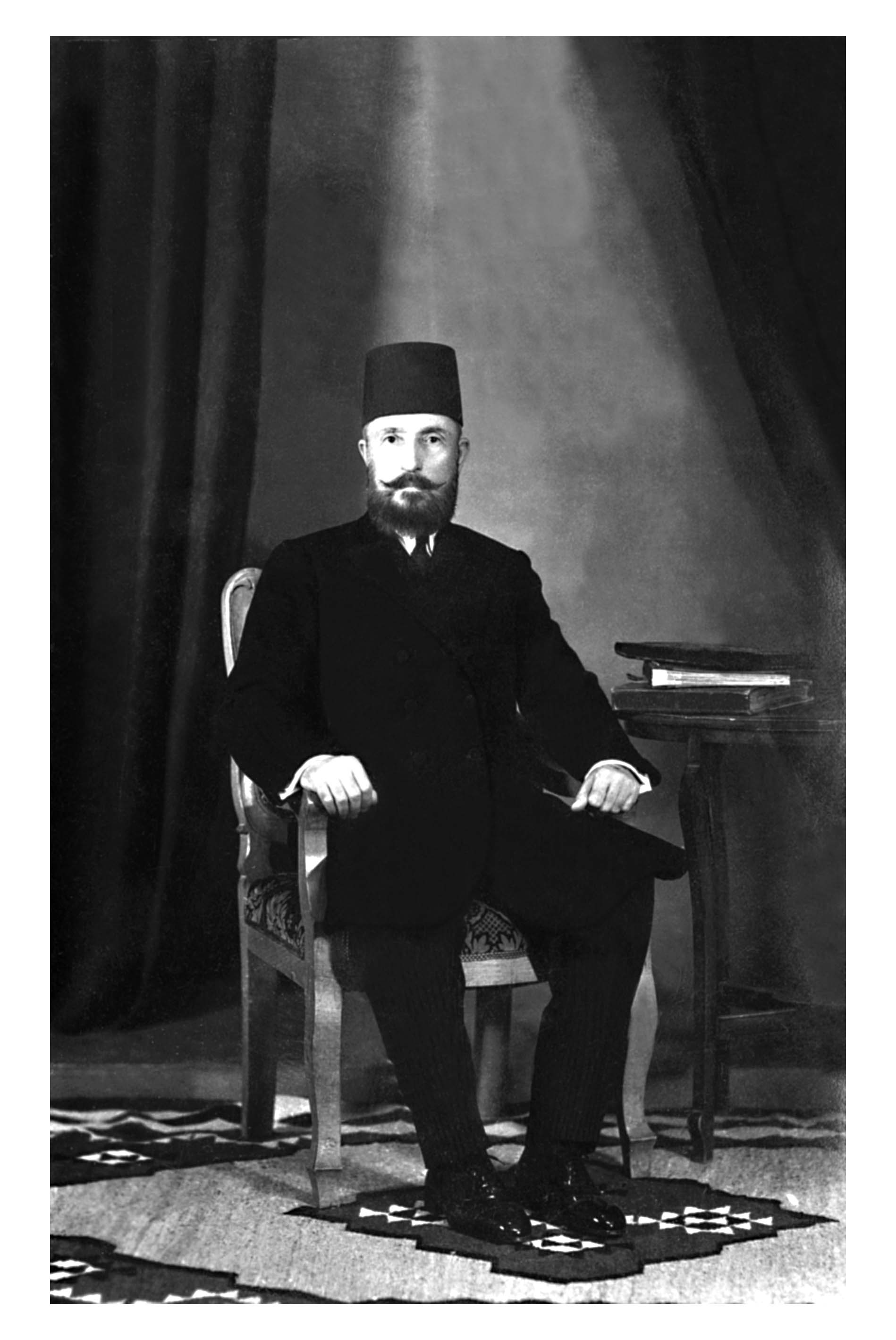 Emir Ahmad Harfouche